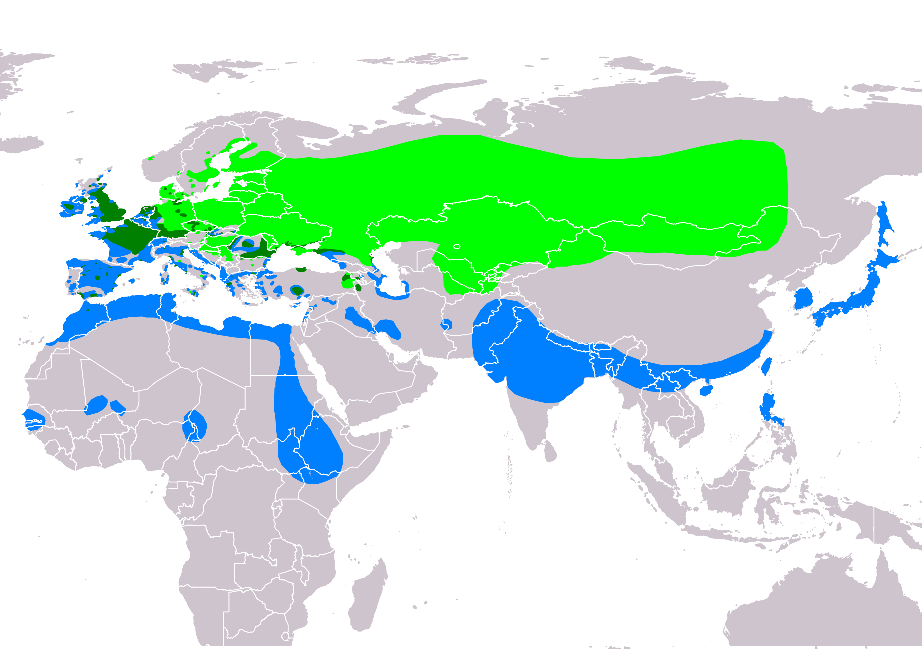 map of common pochard (Aythya ferina) according to IUCN version 2018.2 Legend: Extant, breeding (#00ff00), Extant, resident (#008000), Extant, non-breeding (#007fff)